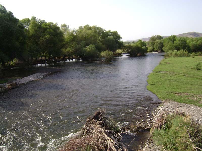 Akari river, Republic of Mountainous Karabakh